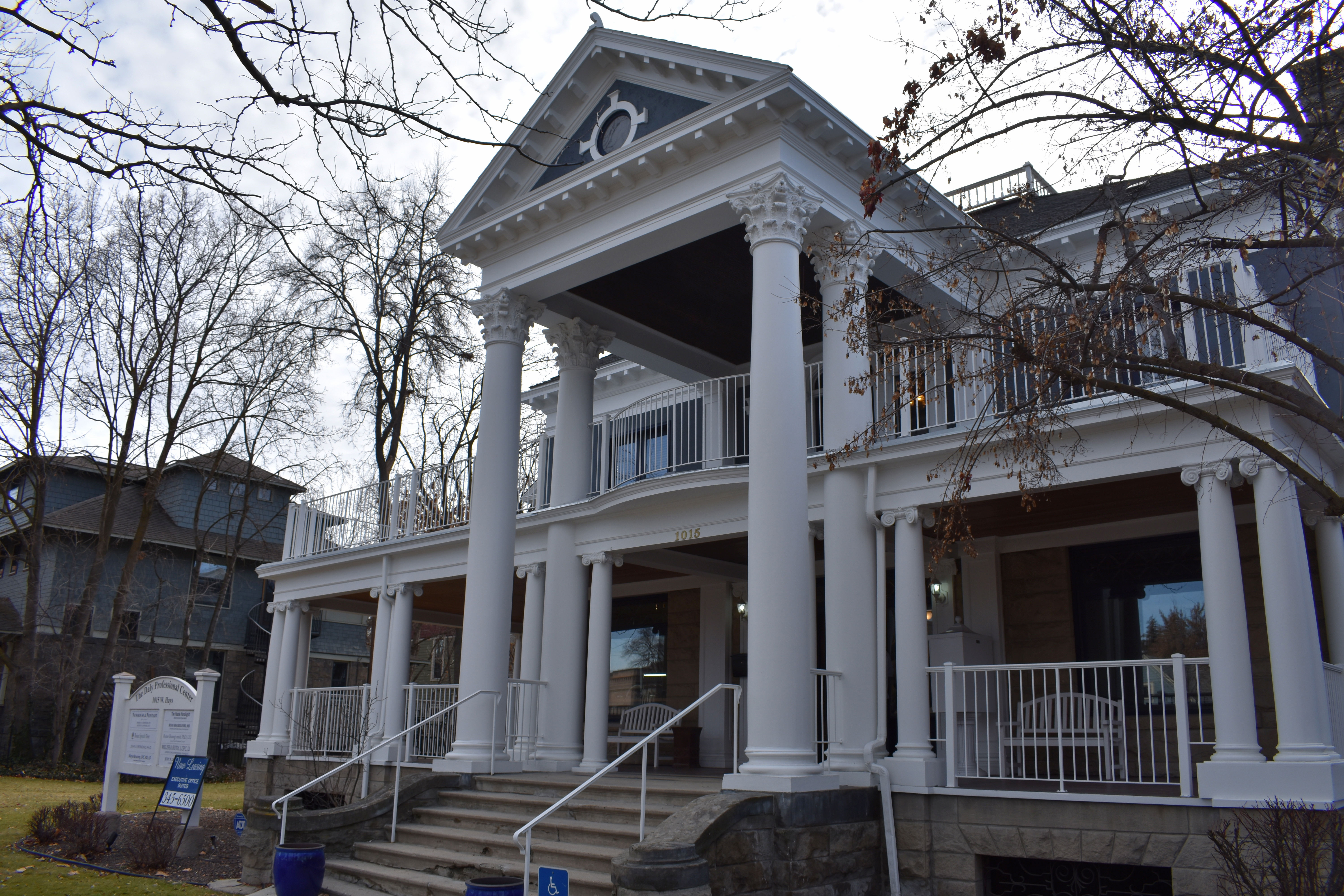 The John Daly House was designed by Tourtellotte & Hummel and is listed on the National Register of Historic Places.